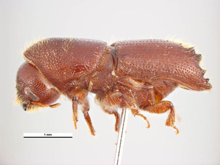 Ips grandicollis collected 67 km north of Brisbane, Australia, 1982